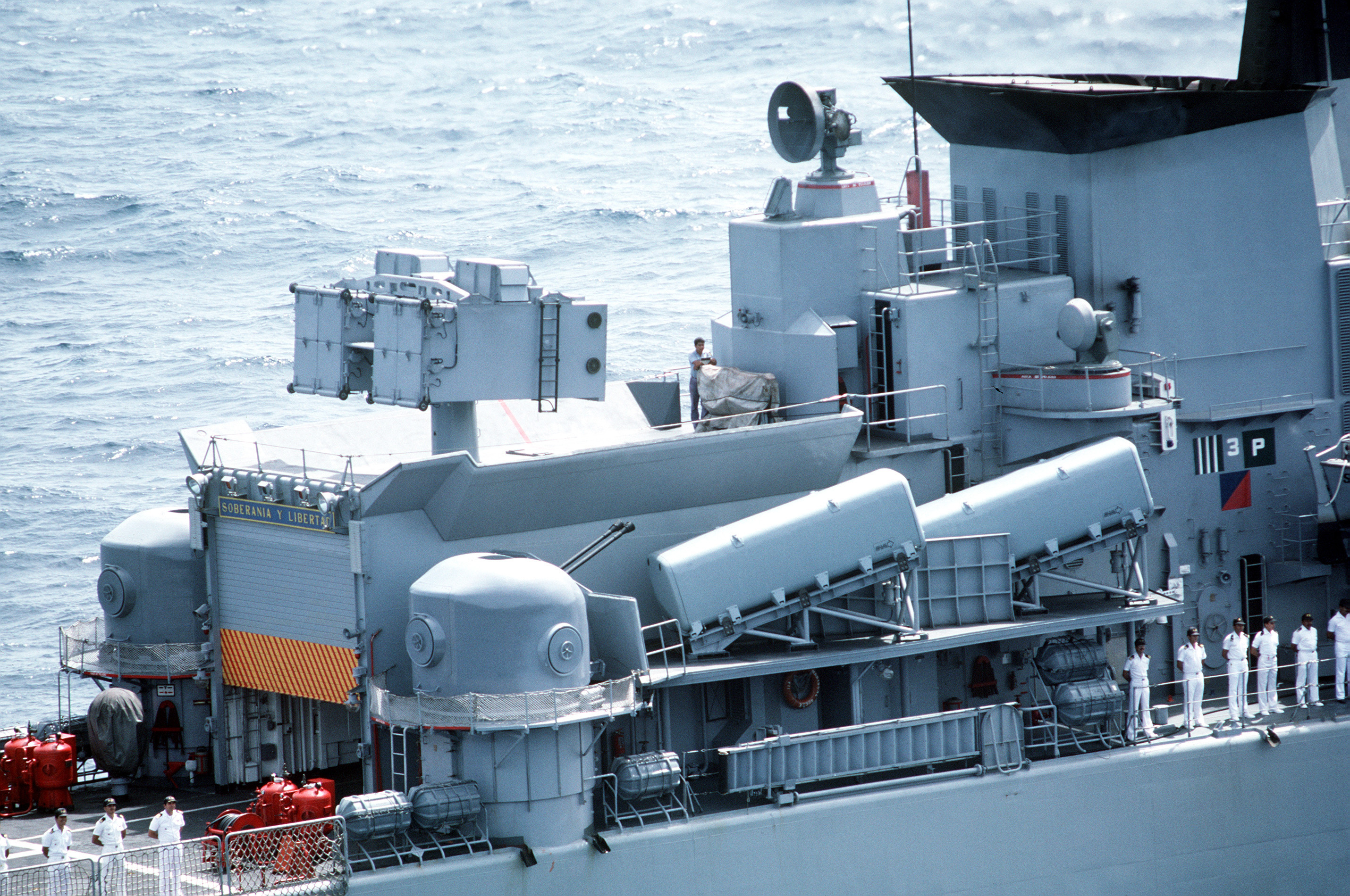 Crew members man the rail of the Venzuelan frigate MARISCAL SUCRE (F 21). Various armament is visible, including two Otomat launch tubes, center, a 5-inch/127 mm gun, left, and an Albatros 8-cell box launcher, upper left.